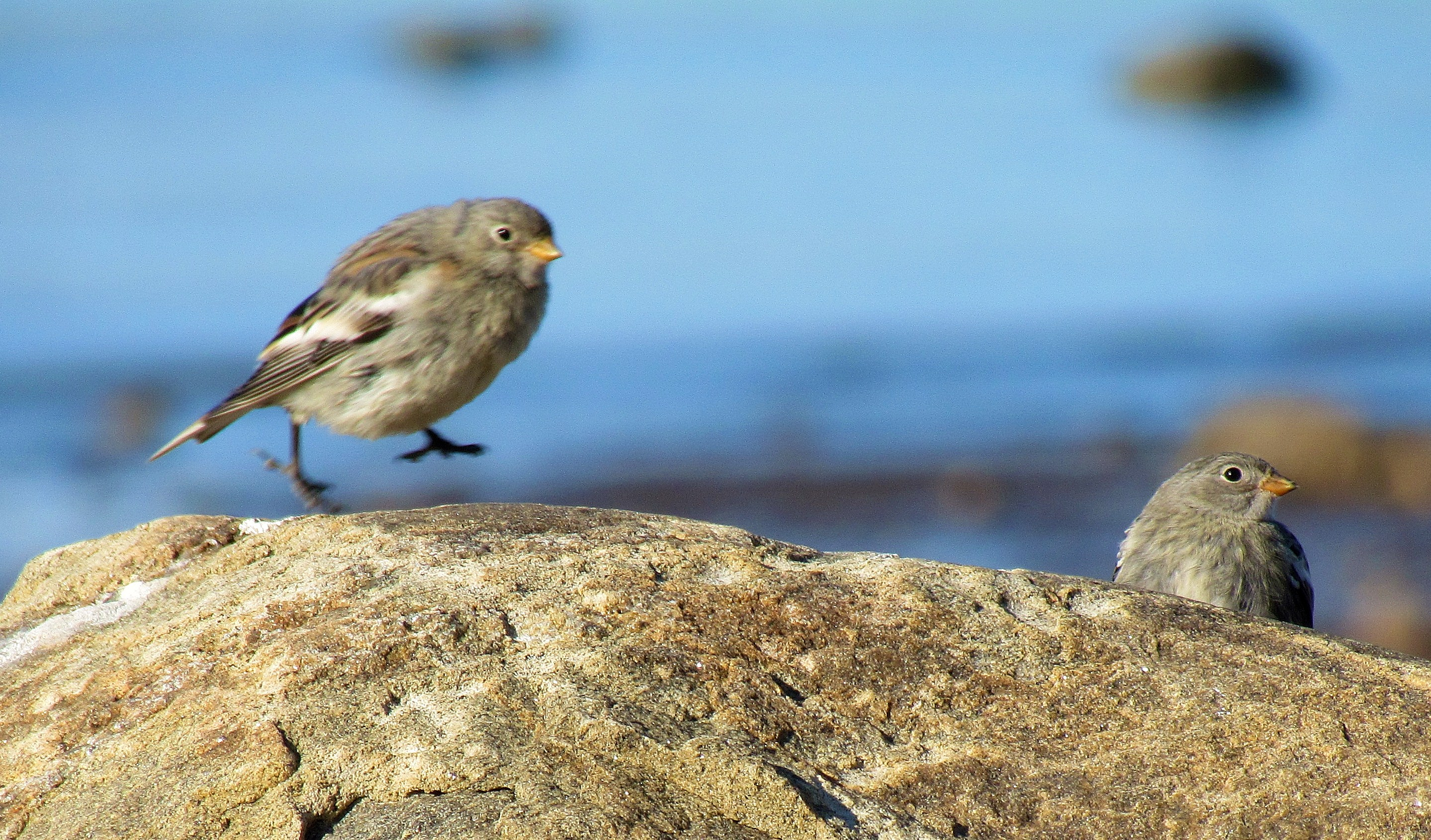 Snow Bunting Plectrophenax nivalis, Iqaluit (Frobisher Bay), Nunavut, Canada.